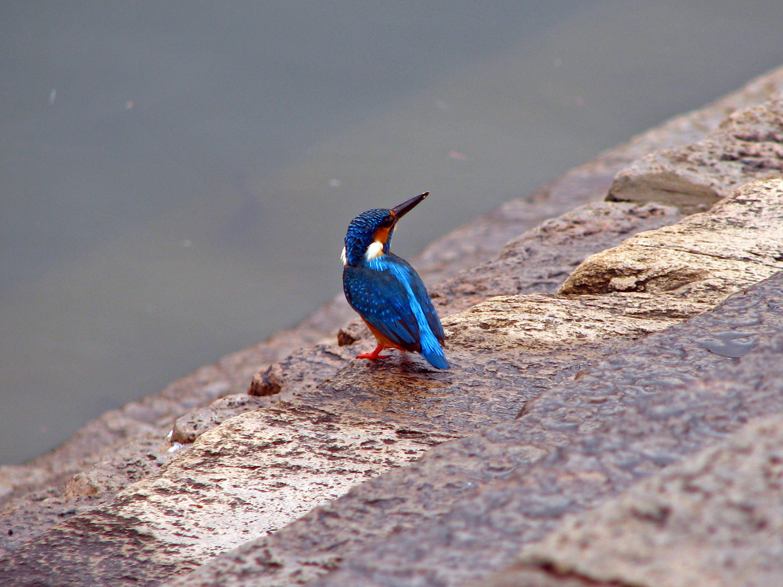 A common kingfisher at a temple tank in Kanchipuram, Tamilnadu.